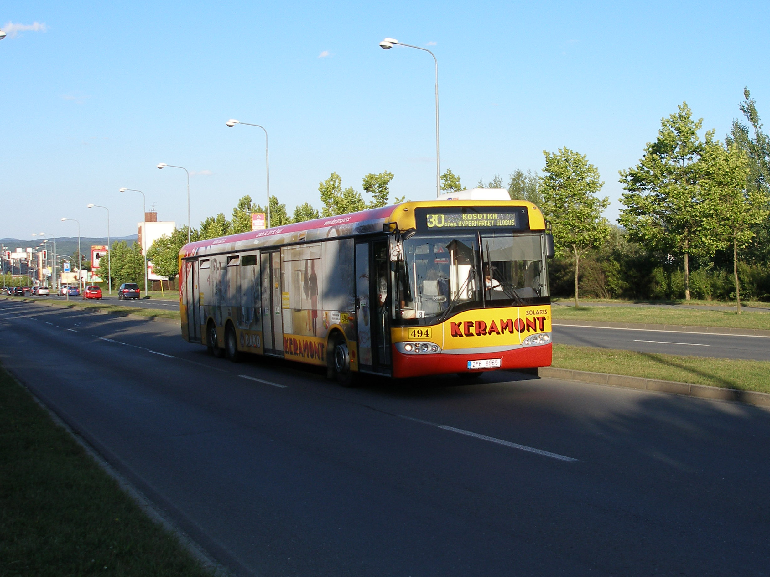 Solaris Urbino 15 Mk3 bus (#494) in Plzeň, Czech Republic. Built 2005. DP Plzeň operator.